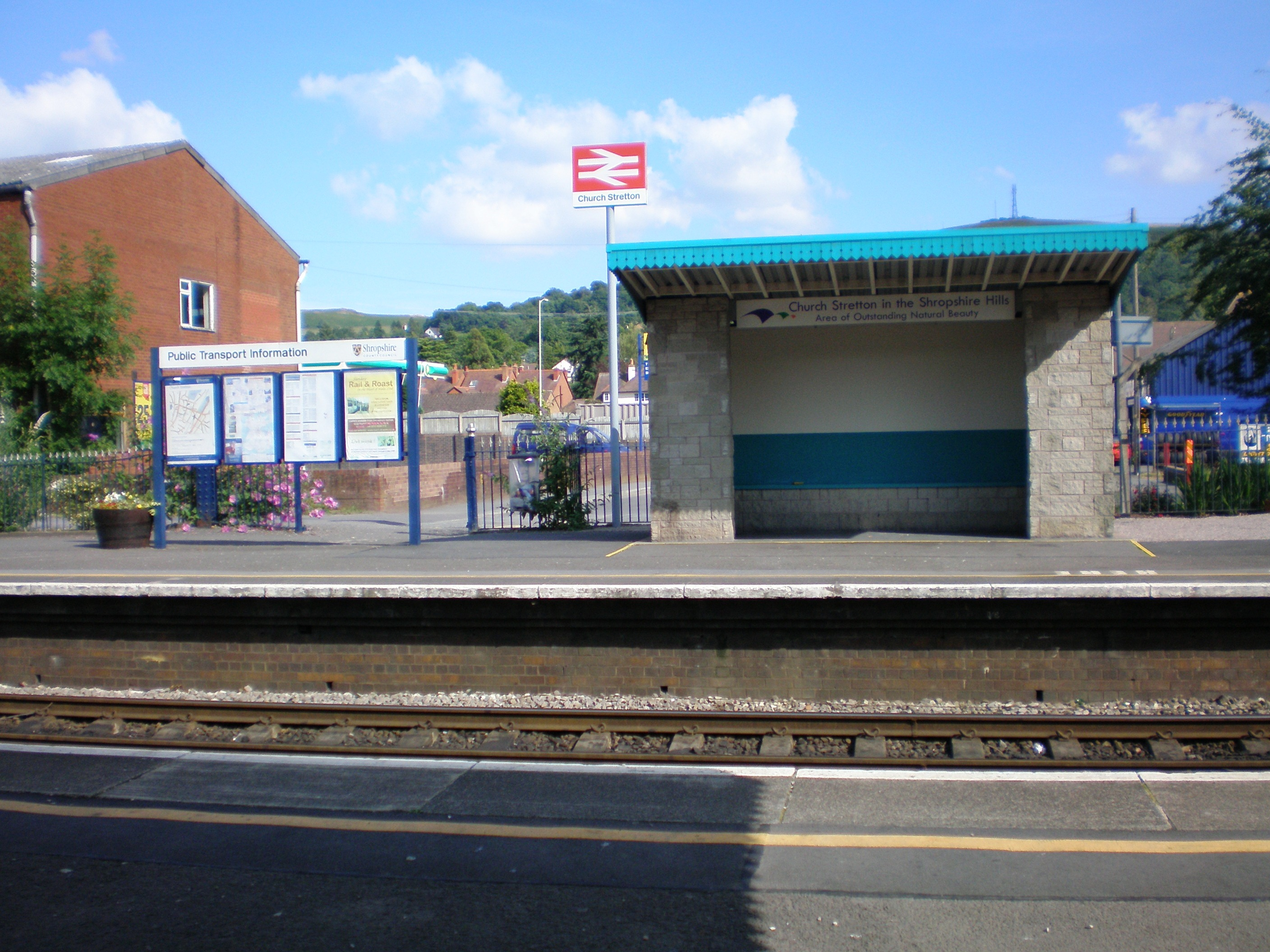 Church Stretton railway station